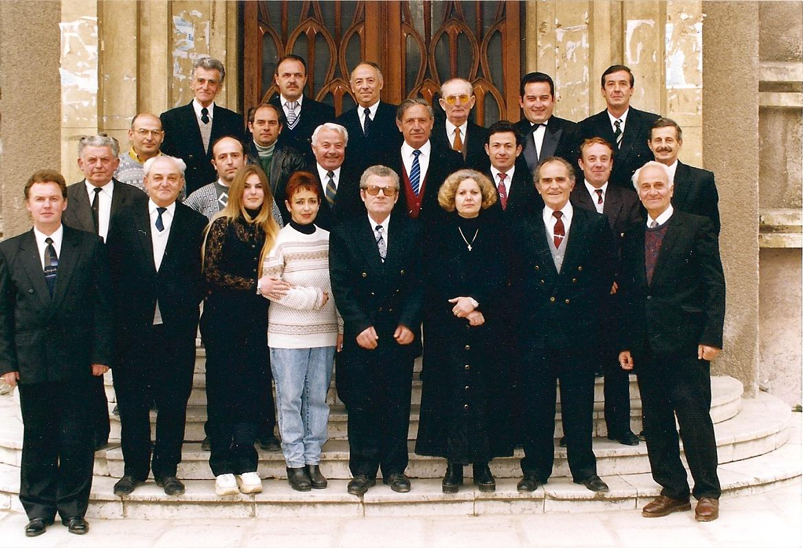 Kori Lira